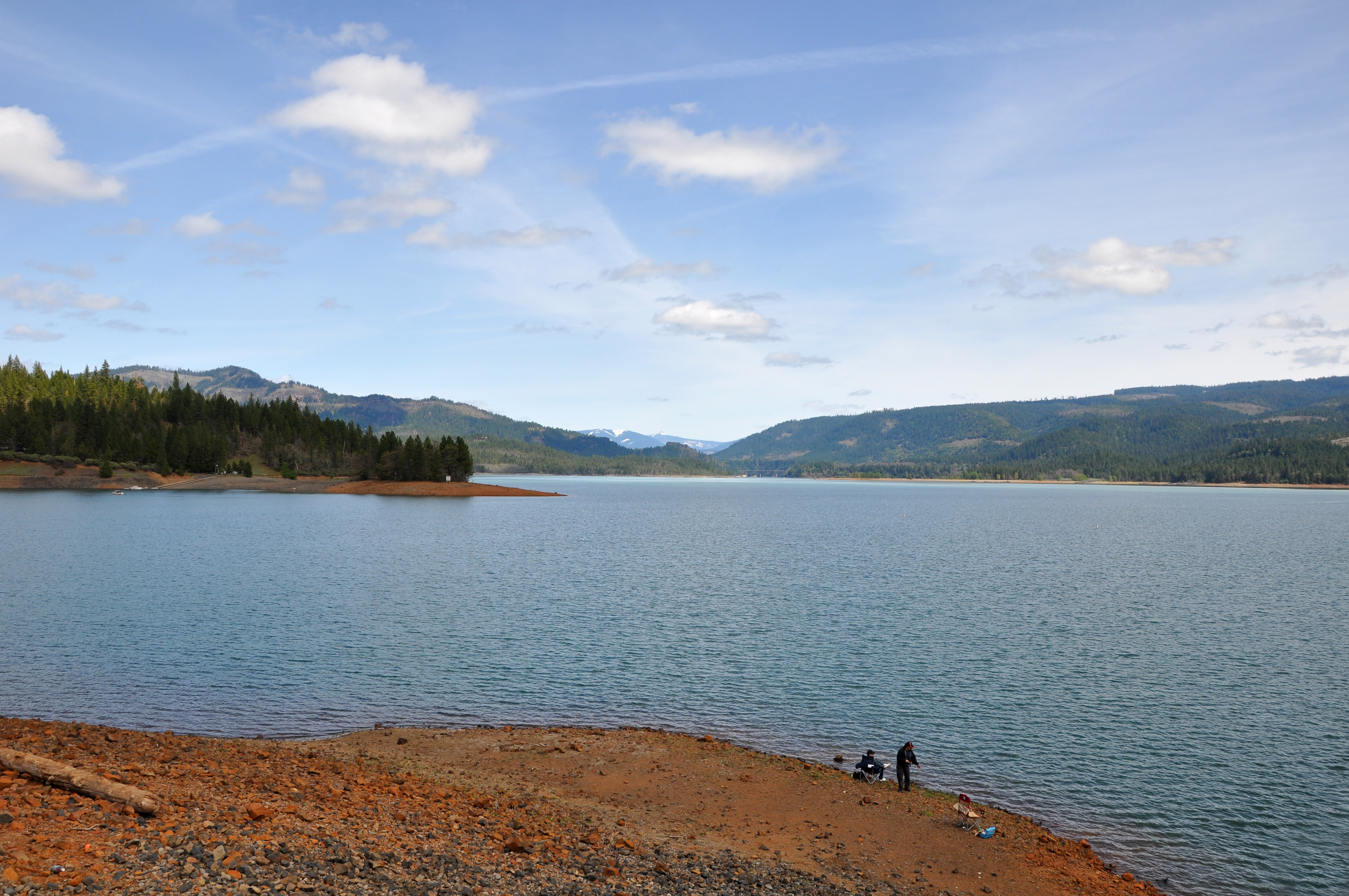 Lost Creek Lake on the Rogue River in the U.S. state of Oregon. The lake is impounded by the William L. Jess Dam, 157 miles (253 km) from the river's mouth on the Pacific Ocean. View is to the east from the dam; peaks in the Cascade Range are visible in the far distance.